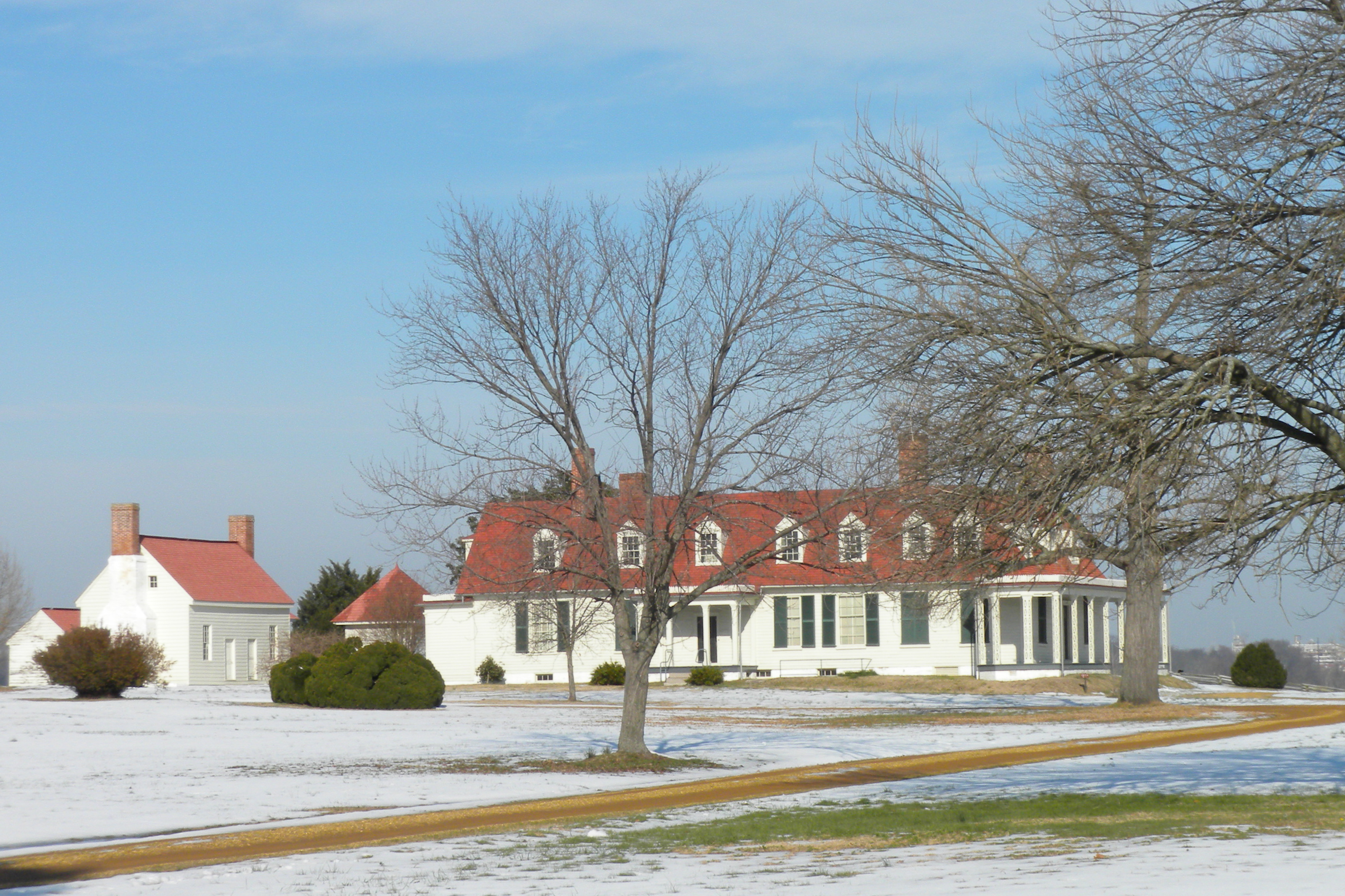 The Appomatox Plantation at City Point, VA. Part of the Petersburg National Battlefield. I donate this photo to the public domain.